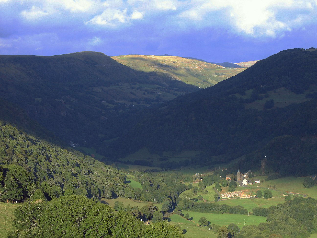 Salers, view from Esplanade de Barrouze towards east, upon Saint-Paul-de-Salers, the Maronne valley and mounts of Cantal.